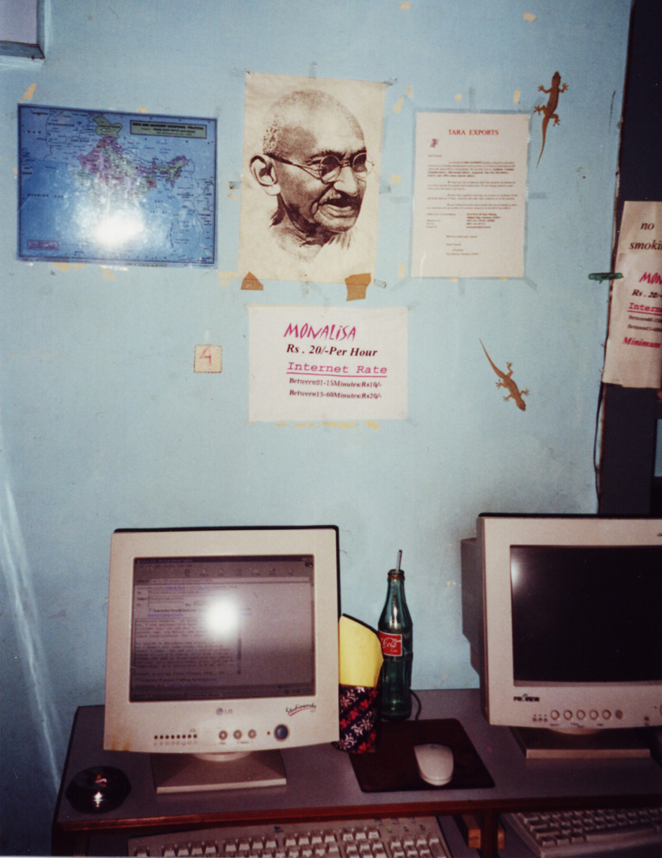 Internet café in Varanasi, India with gekkos in summer 2001.